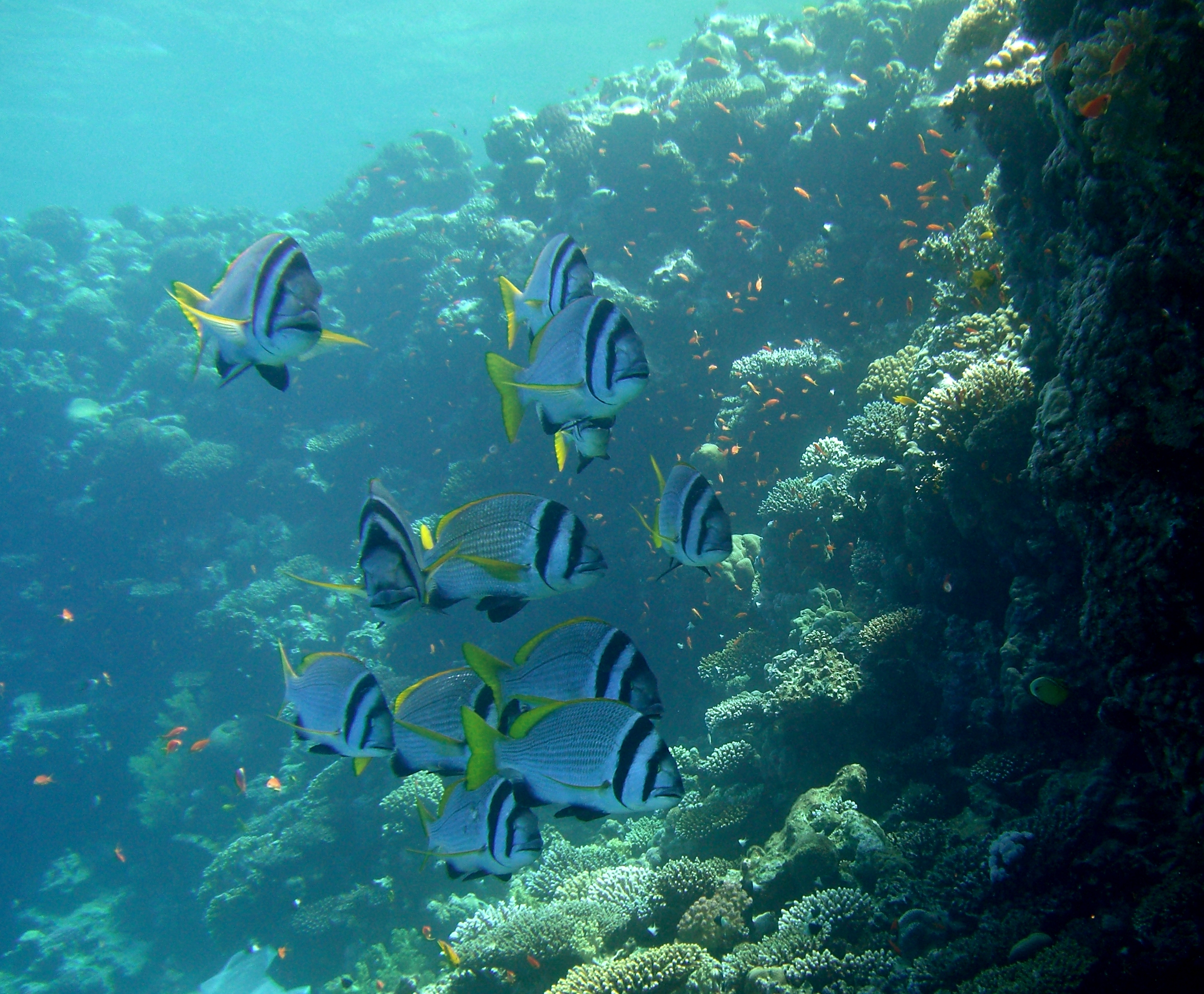 Acanthopagrus bifasciatus